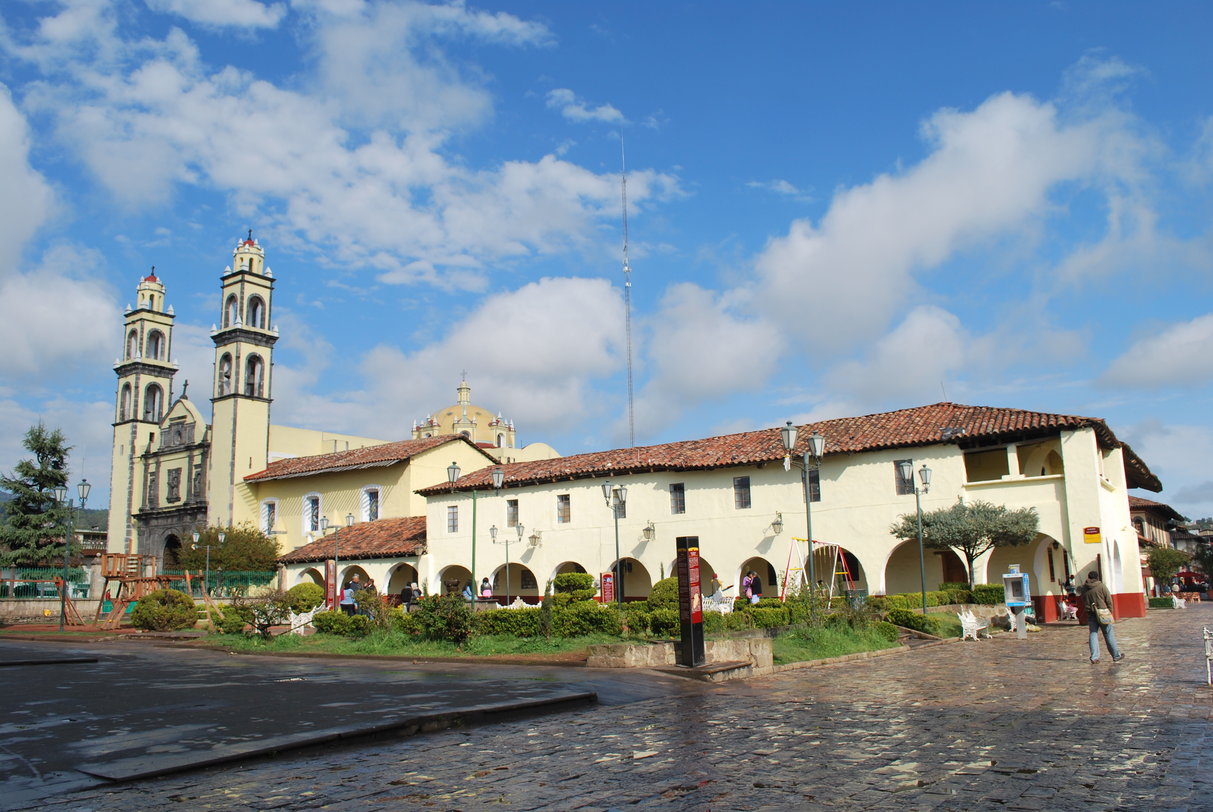 Looking towards the parish of San Pedro in Zacatlán, Puebla, Mexico